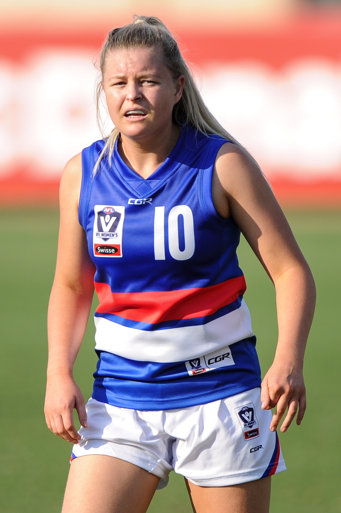 Sarah Jolly of Western Bulldogs during the 2018 VFLW round 5 match between NT Thunder and Western Bulldogs at TIO Stadium on Saturday, 2 June 2018 in Darwin, Australia.